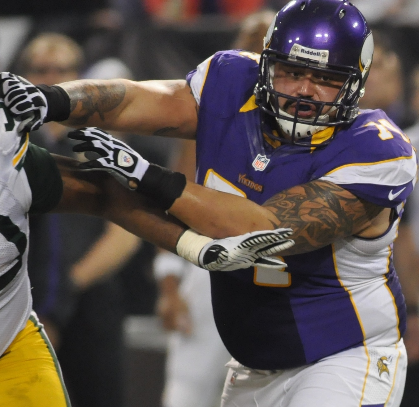 Minnesota Vikings offensive lineman Charlie Johnson in a game against the Green Bay Packers.